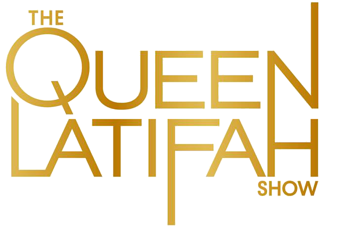 Logo for The Queen Latifah Show.